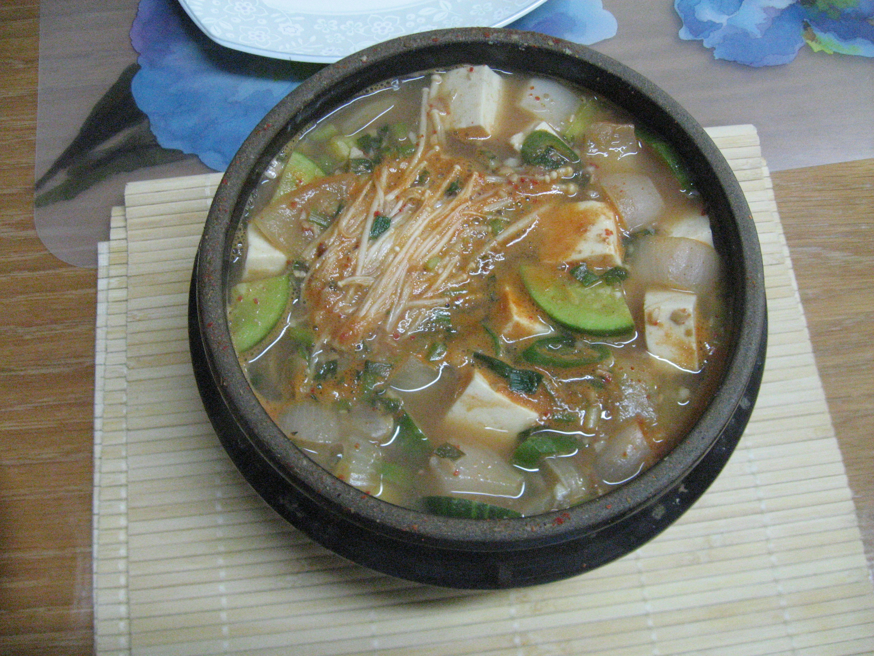 Homemade Korean Bean Paste Stew (Doenjang jjigae)